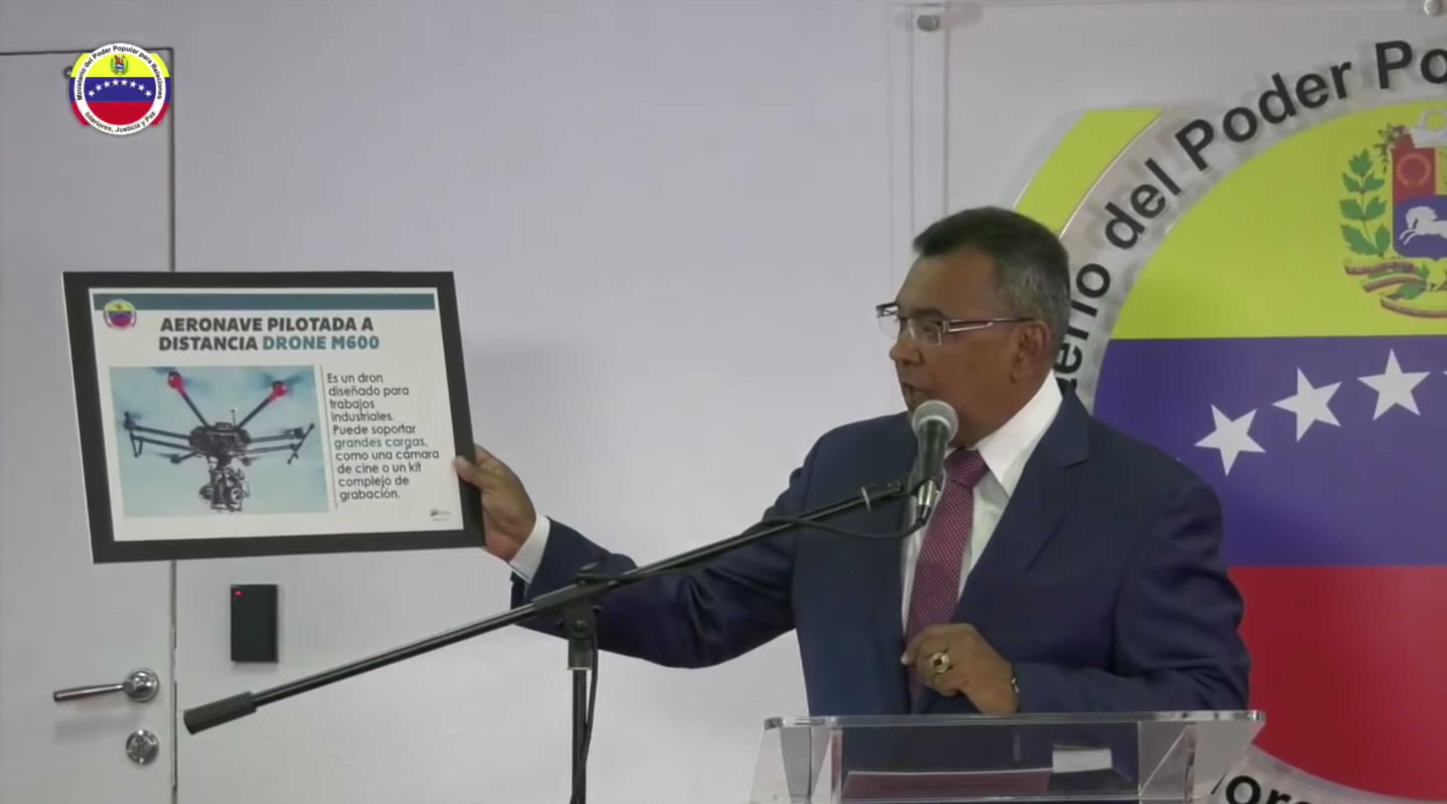 Nestor Reverol sharing information regarding investigations of the drone incidents.